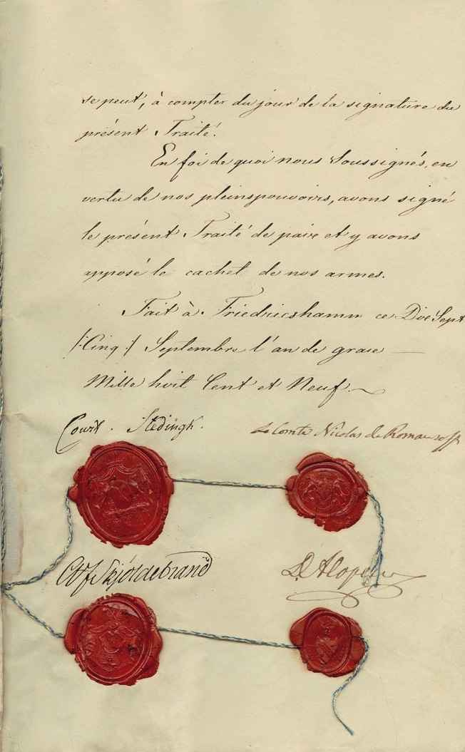 On September 17, 1809, the peace treaty between Sweden and Russia was signed in Fredrikshamn. In the peace treaty it was decided that six Finnish provinces, as well as Åland and part of Västerbotten were to be handed over to Russia. The new Russian-Swedish border now stretched through the Sea of Åland, the Gulf of Bothnia, as well as Torne and Muonio River. Sweden were committed to join Continental System, and stop trade with the United Kingdom. The treaty also regulated the release of prisoners of war.